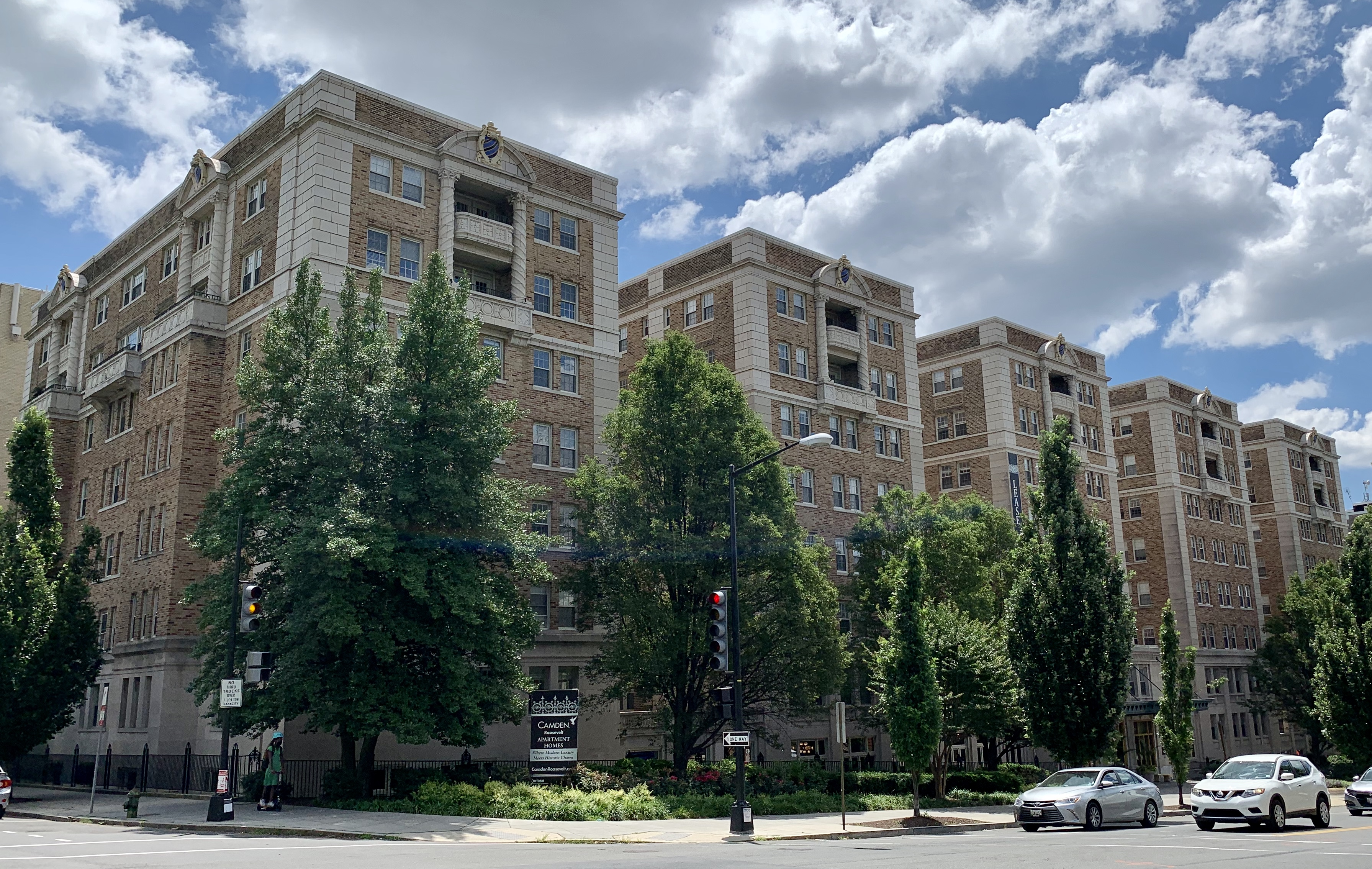 The Camden Roosevelt (also known as The Roosevelt) located at 2101 16th Street NW in Washington, D.C. The largest apartment building in the Sixteenth Street Historic District, the Camden Roosevelt was originally called The Hadleigh, but was renamed in honor of Theodore Roosevelt. The imposing Renaissance Revival building, completed in 1920 and designed by Appleton P. Clark Jr., features five identical wings.